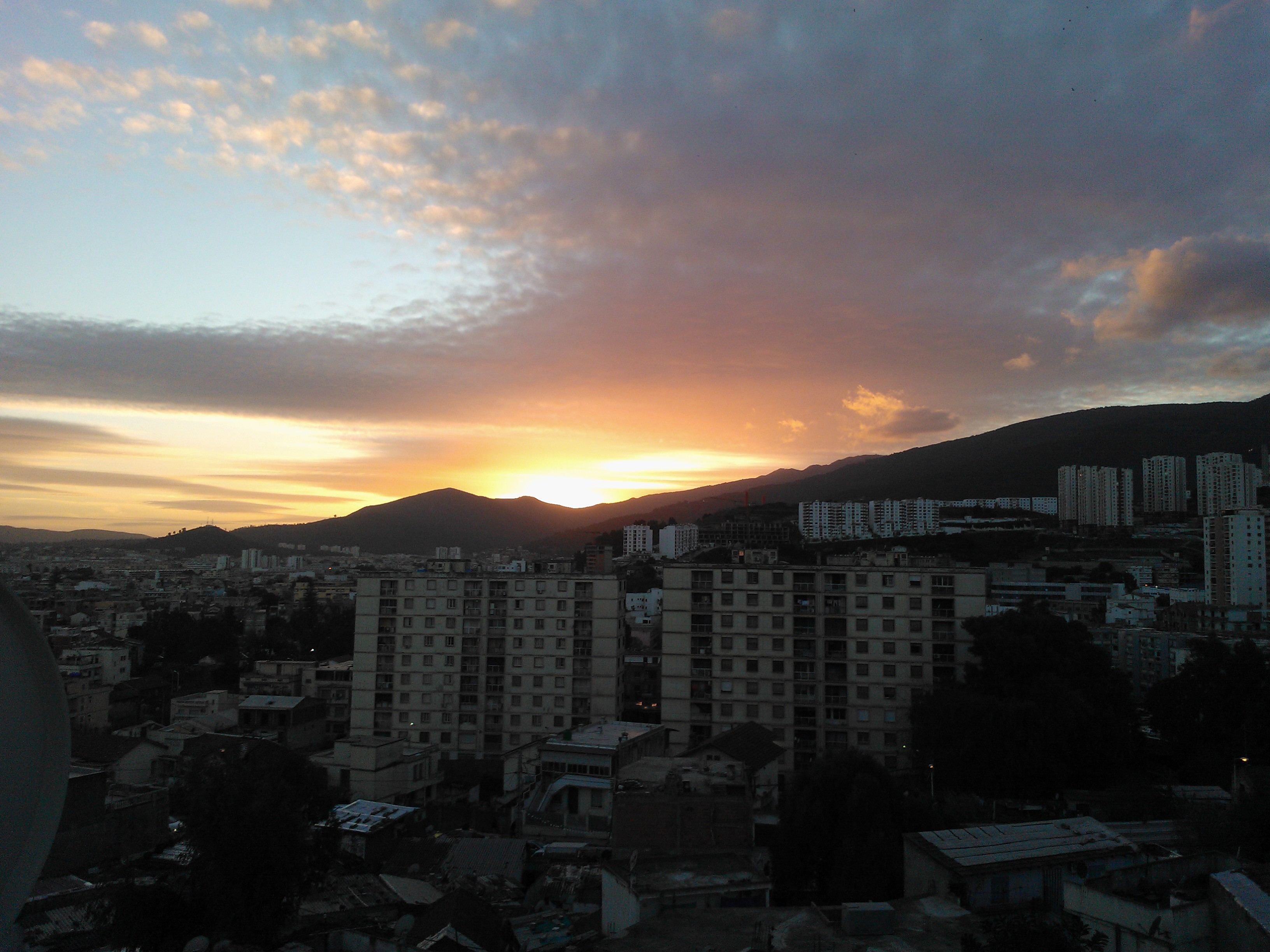 WILAYA ANNABA-ALGERIE